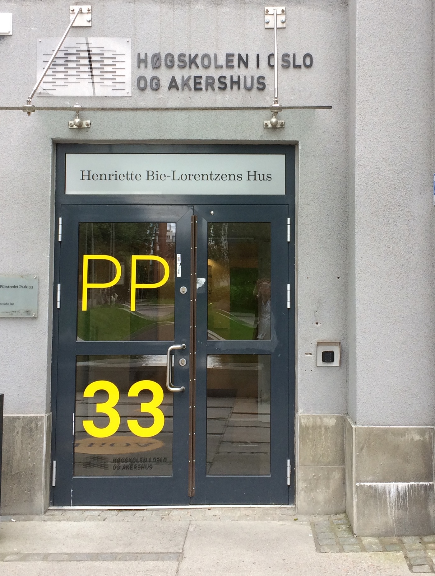 Entrance to Henriette Bie Lorentzen House, Oslo and Akershus University College, Pilestredet Park 33/35.